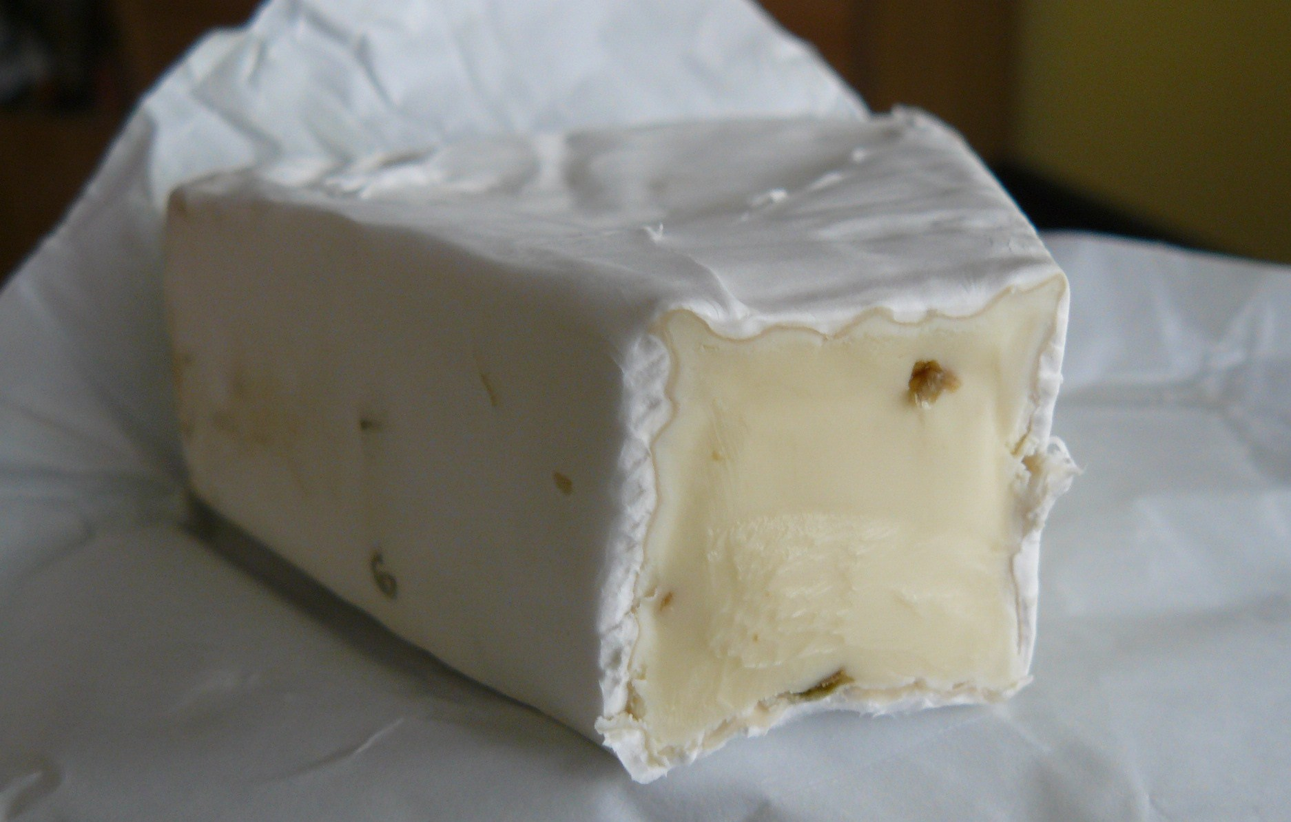 Brie-type cheese from Poland.